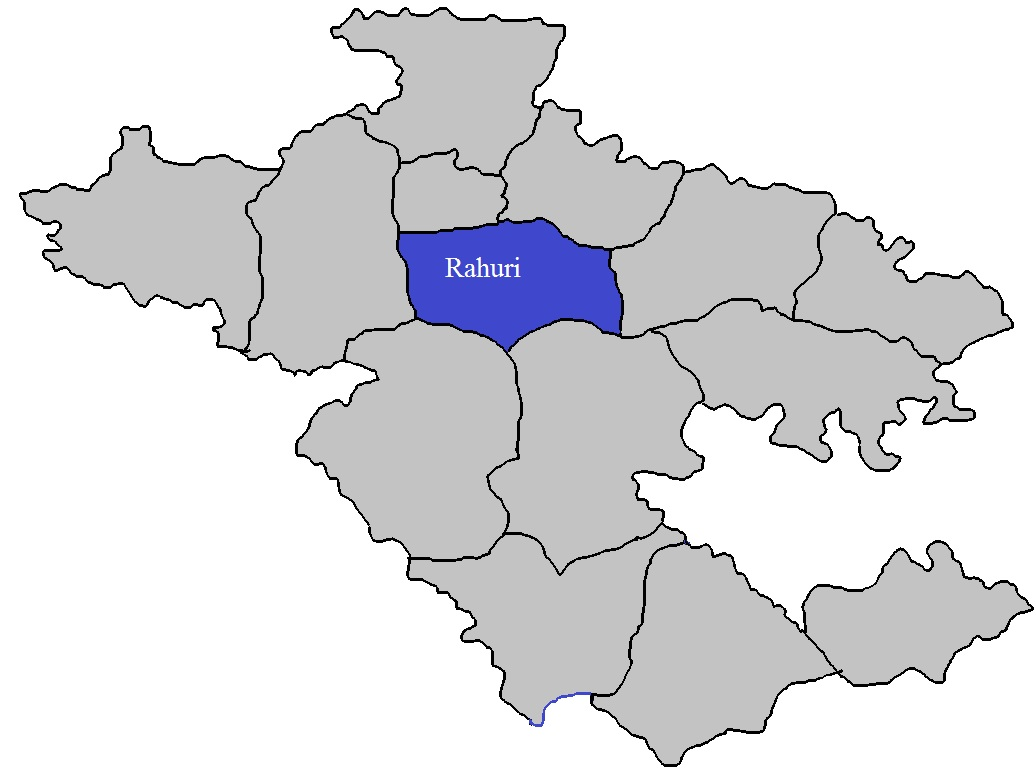 Rahuri Tehsil in Ahmednagar District